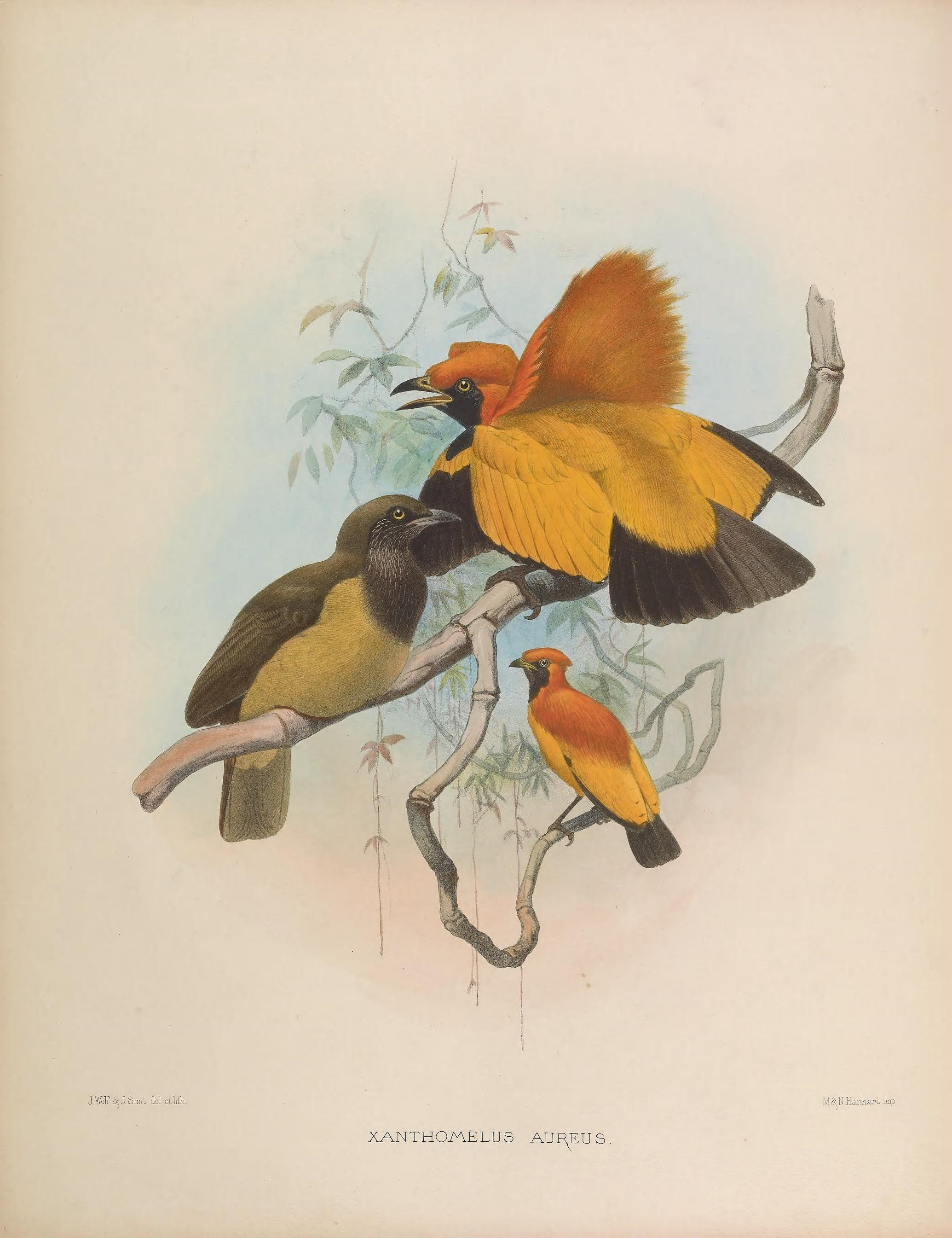 Drawing of 1873